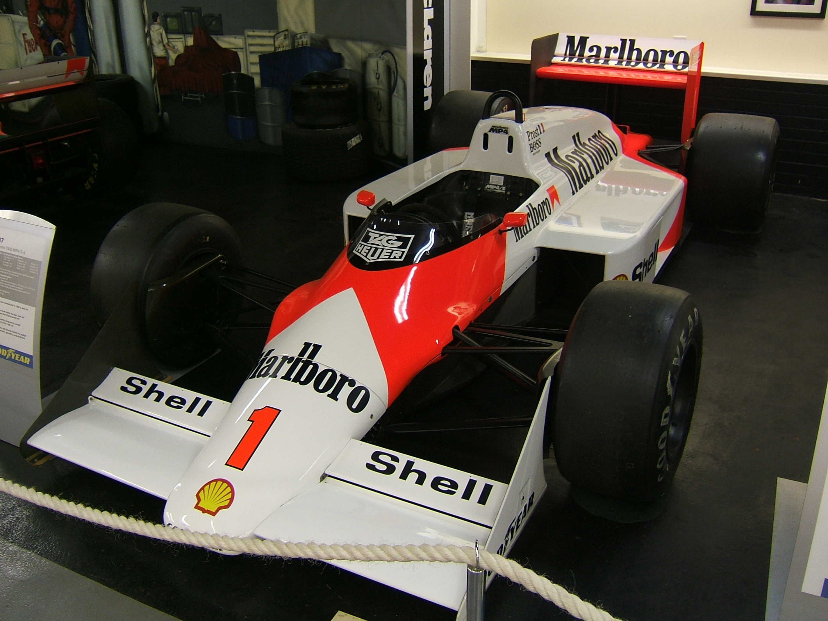 A 1987 McLaren MP4/3. In the Donington Grand Prix Collection museum, Leics., UK.